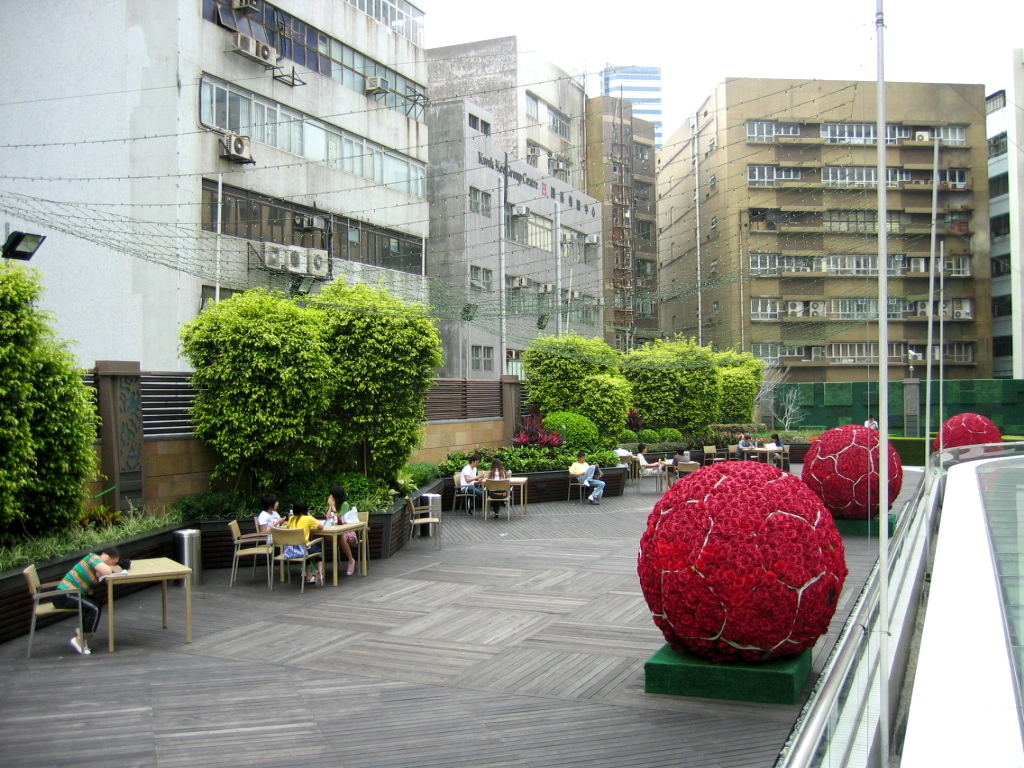 HK apm t-park in 2006